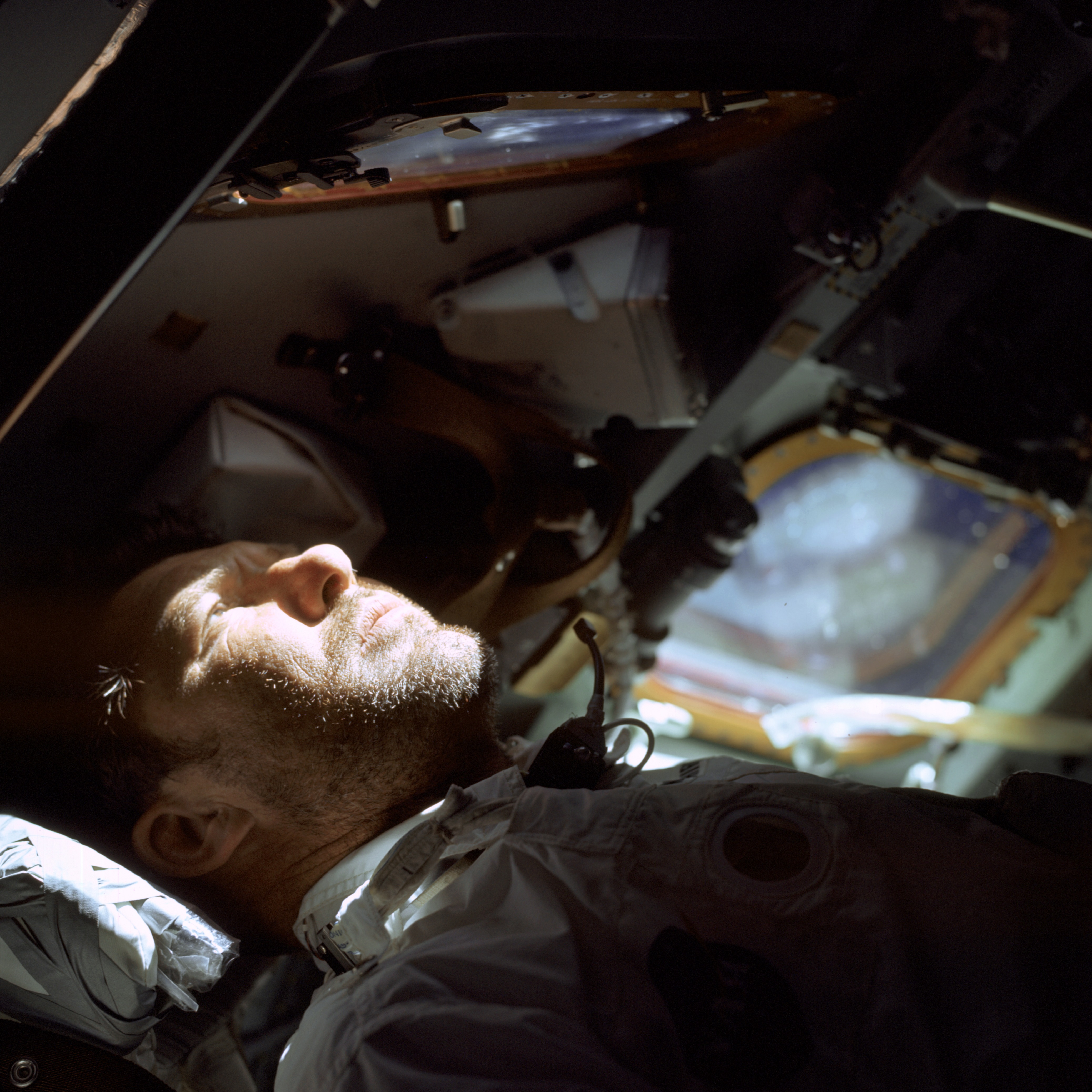 Apollo 7 commander Walter Schirra looks out the rendezvous window in front of the commander's station on the 9th day of the Apollo 7 Earth orbital mission.